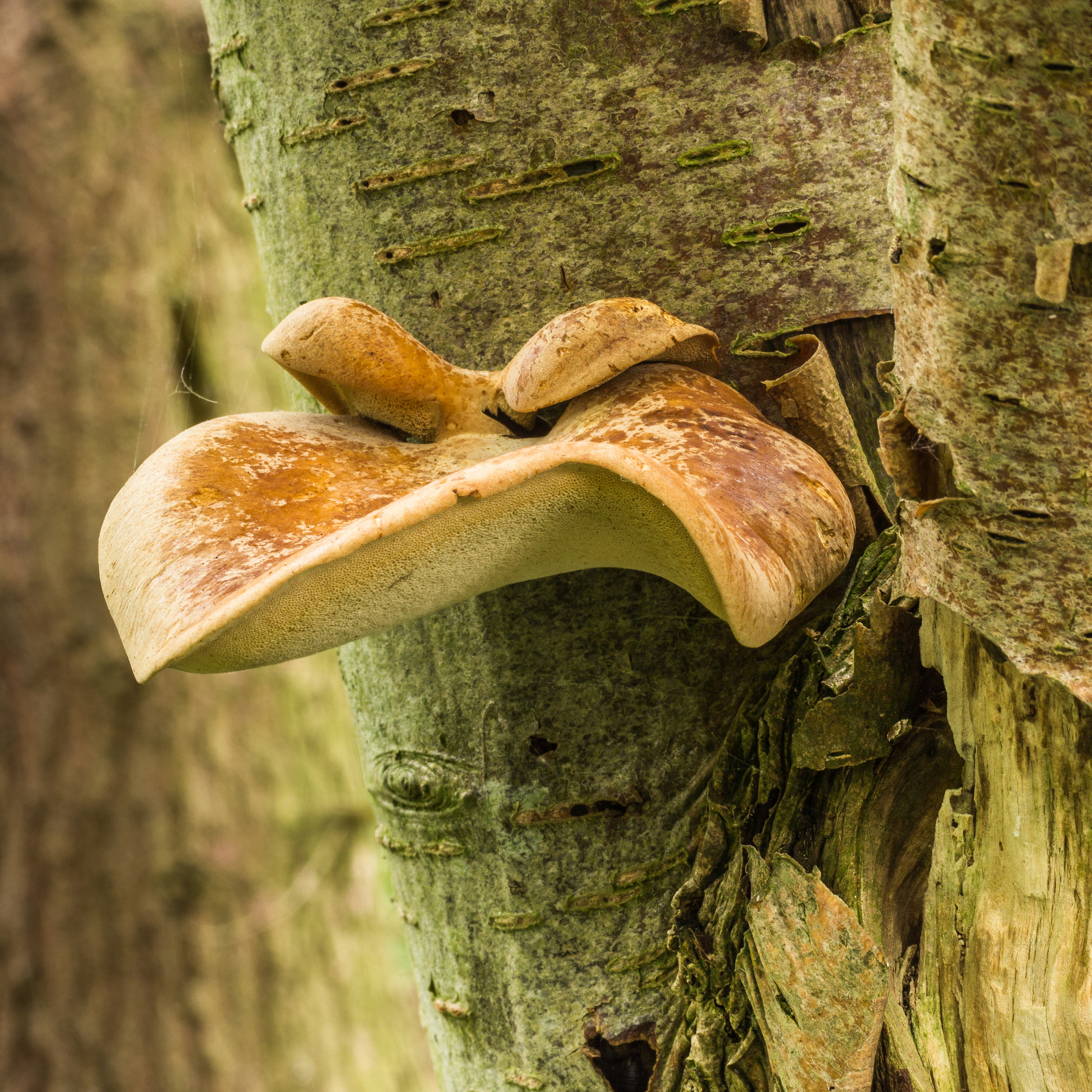 Polyporus varius on a dead Sorbus. Location. Natuurterrein De Famberhorst. The image is focus stacked from two photos.